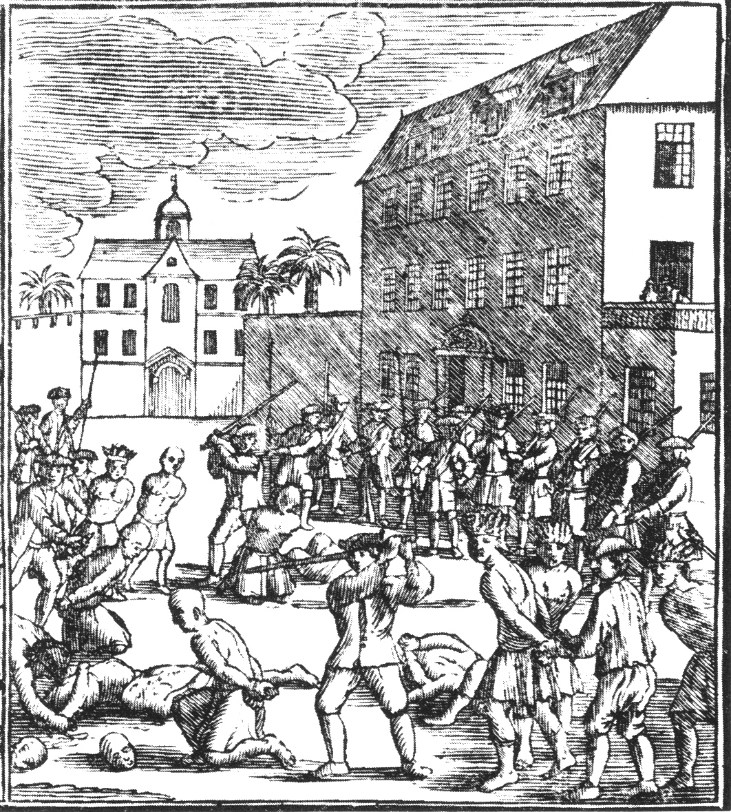 A drawing of the 1740 Batavia massacre, taken from (1895) Atlas van Stolk. Katalogus der historie-, spot- en zinneprenten betrekkelijk de geschiedenis van Nederland, Amsterdam: F. Muller & Co. OCLC: 10847666. as noted in * (2008) Tionghoa dalam Pusaran Politik, Jakarta: TransMedia Pustaka, p. 122 ISBN: 979-799-052-4.